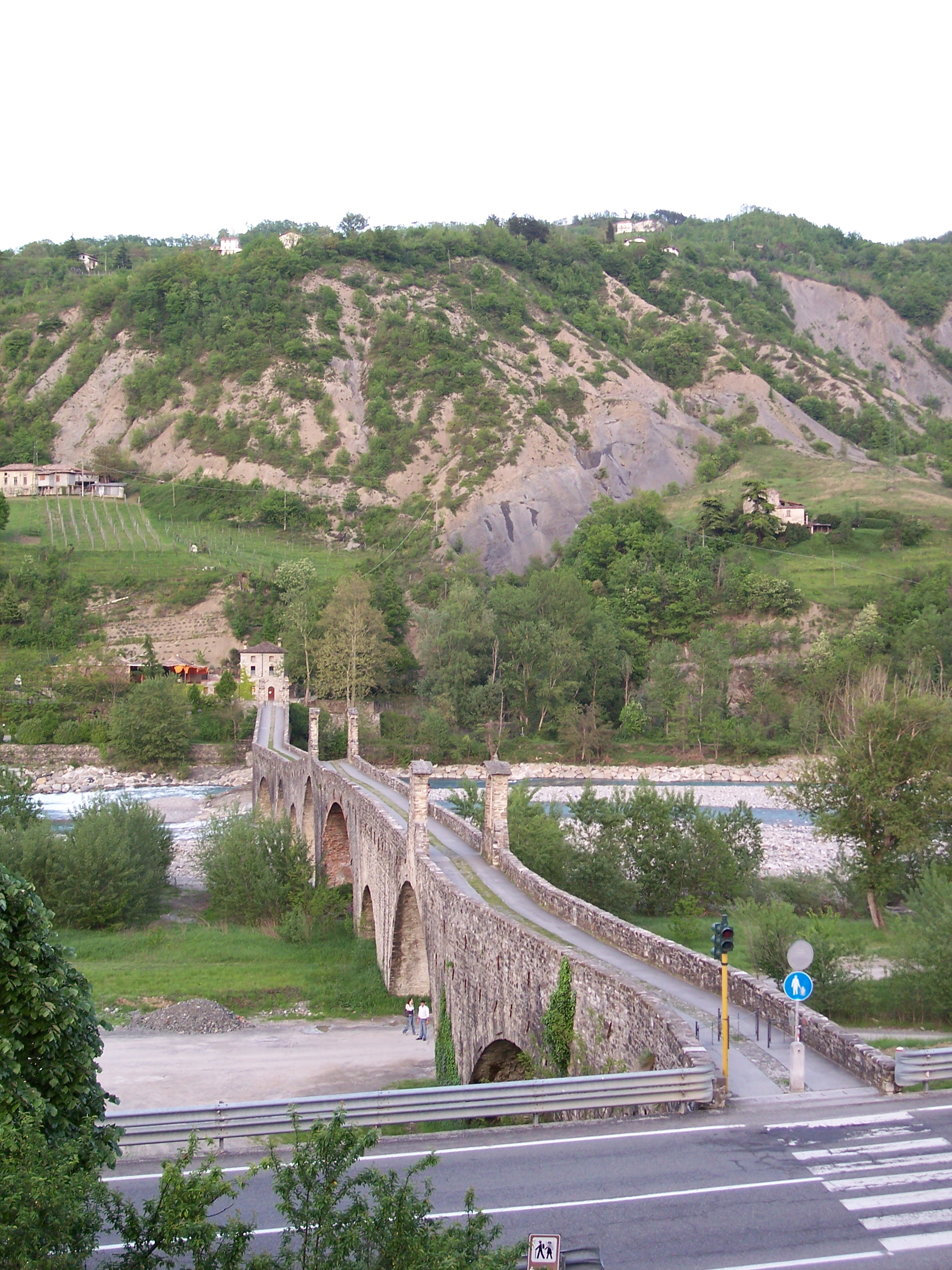 The old bridge Ponte Gobbo in the appenine town of Bobbio, close to Piacenza, dating back to Roman times.